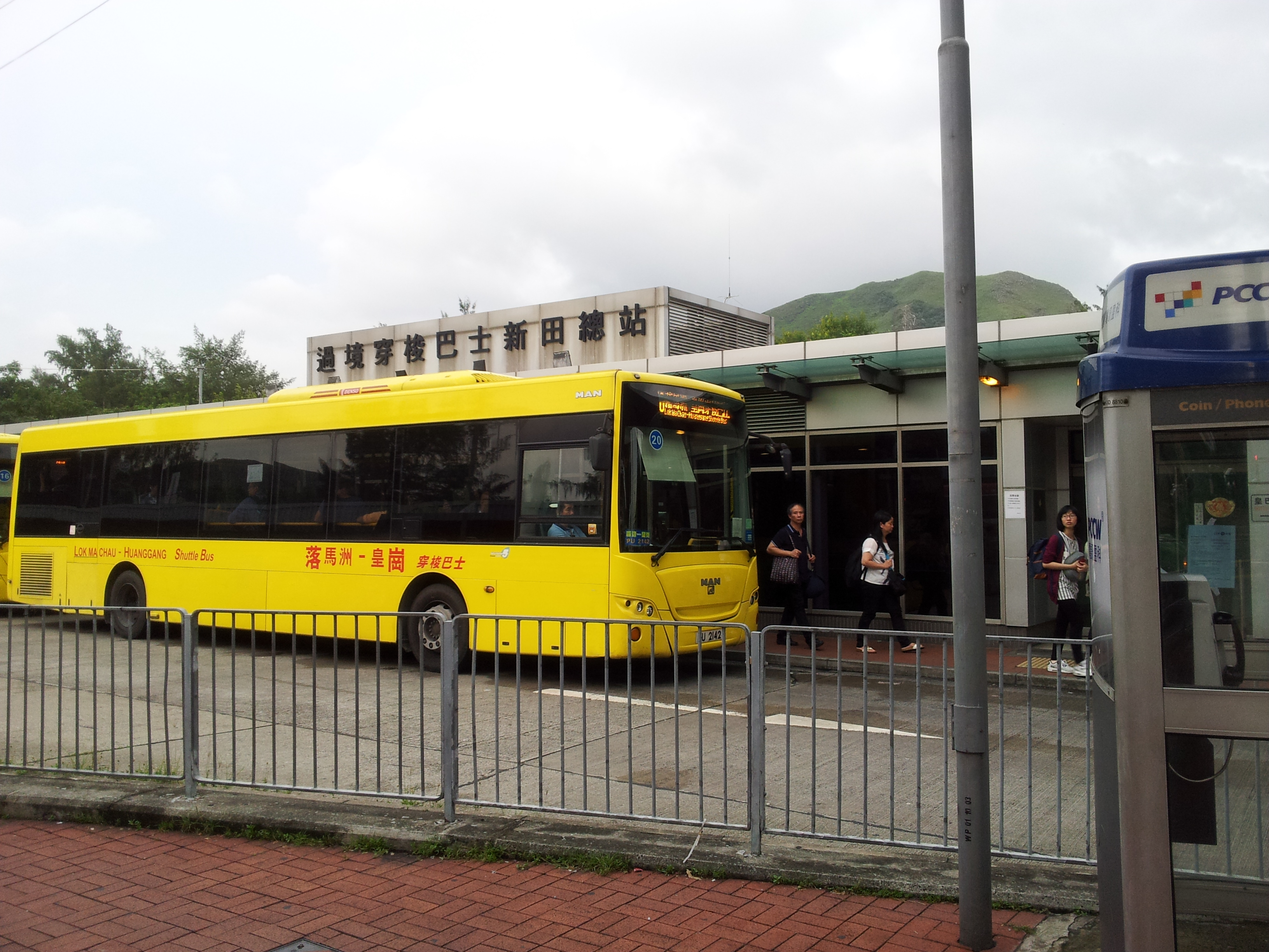 san tin bus interchange